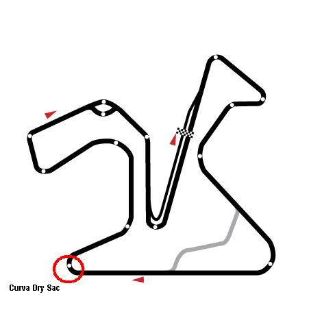 Circuit map of Circuit Jerez with the Curva Dry Sack corner highlighted.